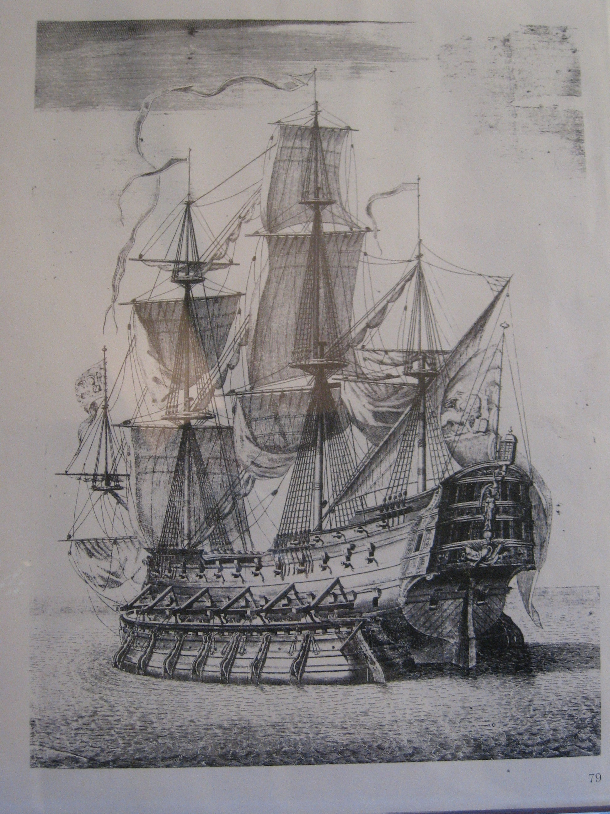 Venetian Ship on Camels. XVII c. engraving, Museo Navale, Venezia